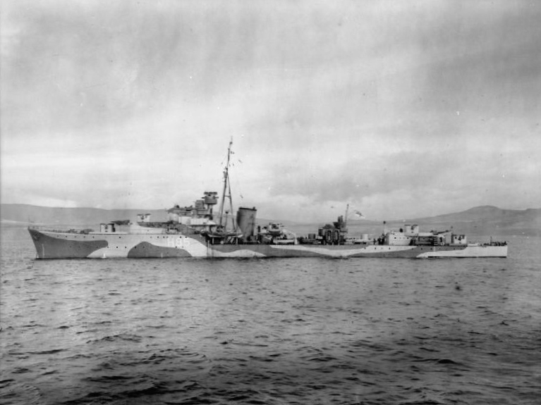 Photograph of British destroyer HMS Relentless.